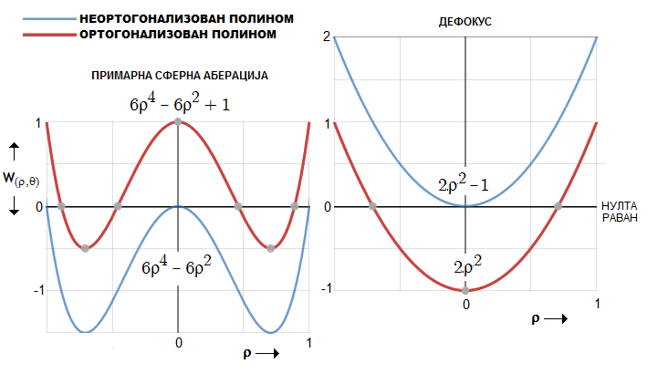 ОРТОГОНАЛИЗАЦИЈА ЗЕРНИКЕ ПОЛИНОМА